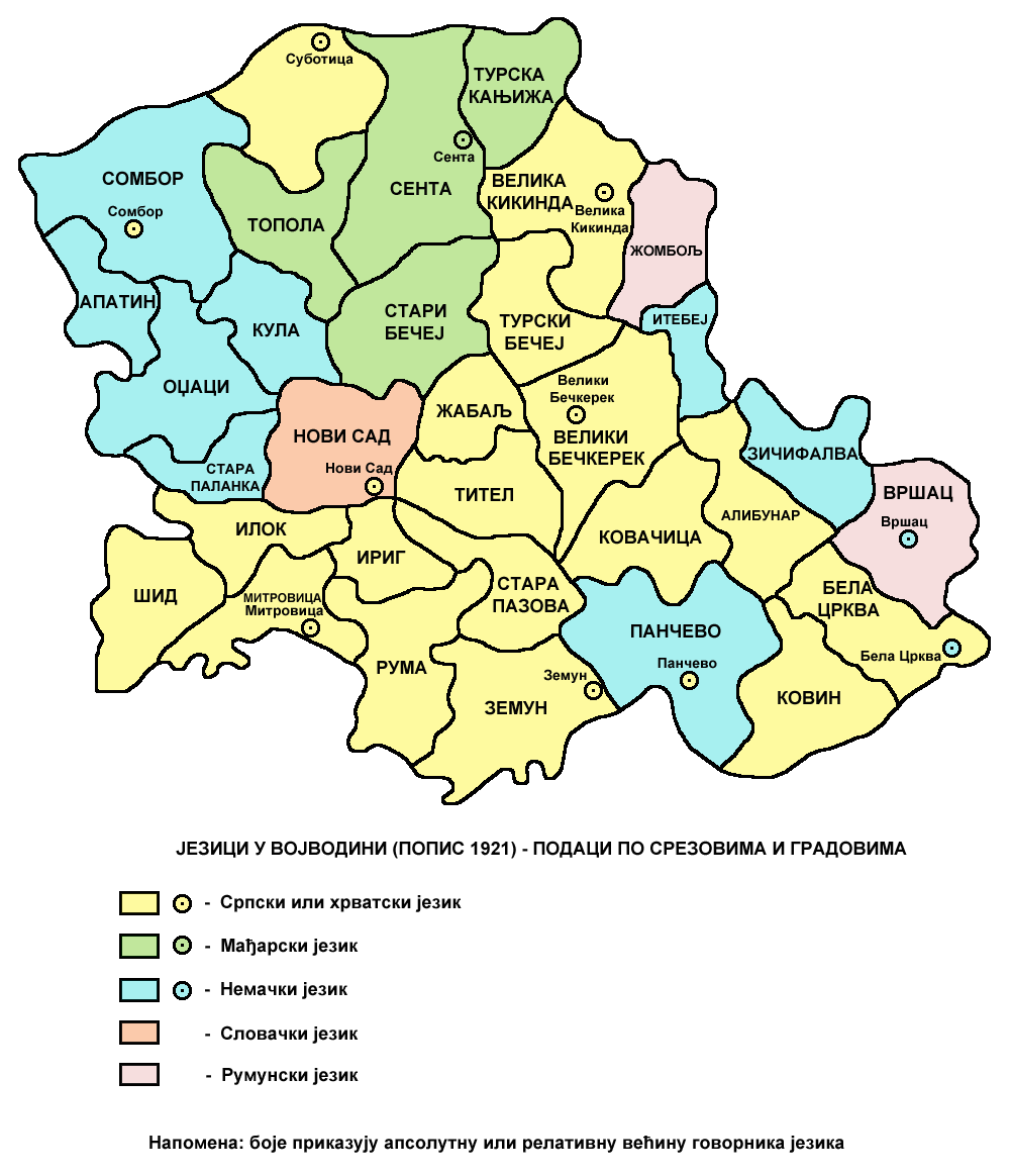 Language map of Vojvodina - 1921 census.